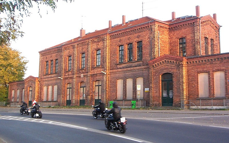 Bahnhof in Teterow